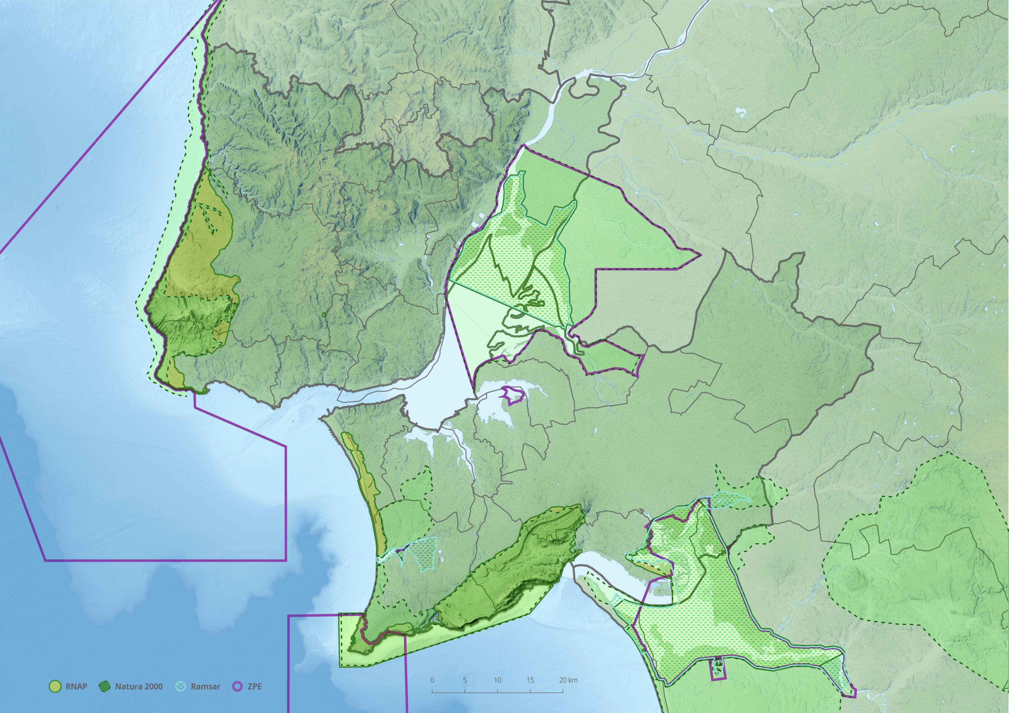 Protected areas of the Lisbon Metropolitan Area